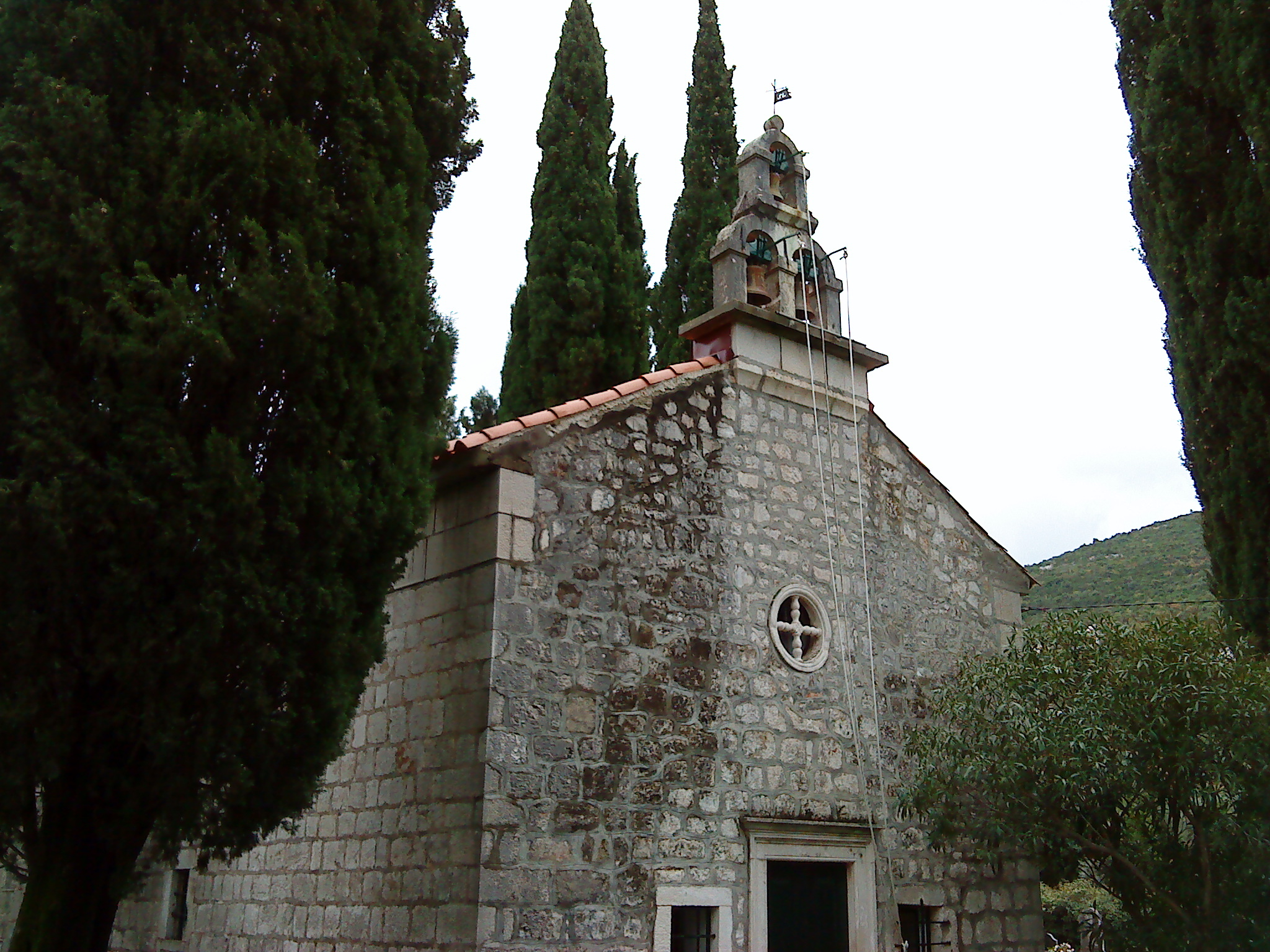 St. Elijah and st. Liberan church at Roman Catholic cemetery in Brijesta